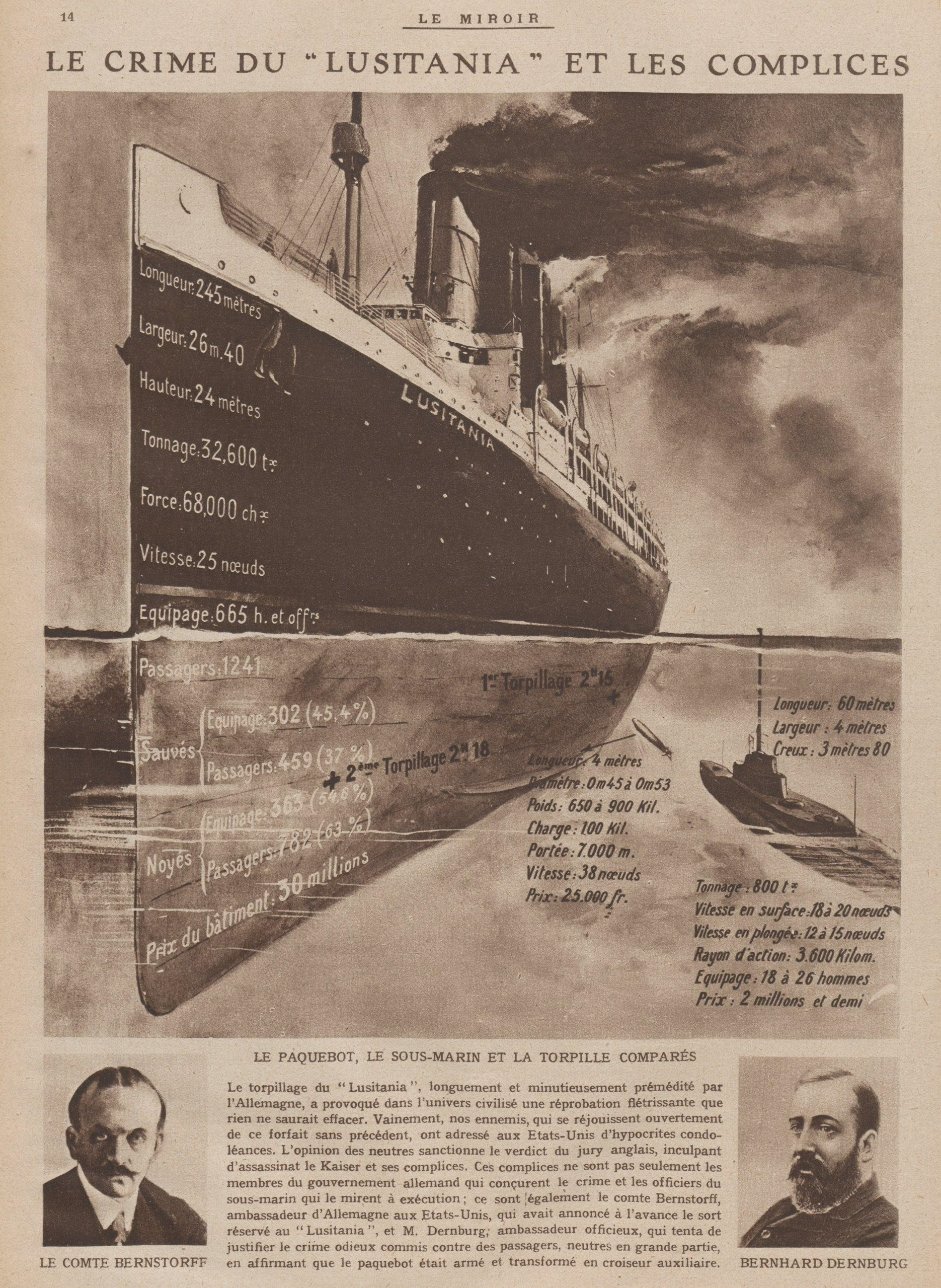 The sinking of the liner Lusitania presented by the French weekly Le Miroir May 23, 1915. The drawing shows the information provided at the time of two torpedoes fired. The anti-German commentary speaks of a "crime". Rough translation of the text: The sinking of the Lusitania, long premeditated by Germany, caused in the civilized world total disapproval. Without success, our enemies, who openly welcome this unprecedented package, sent to the United States hypocritical condolences. The opinion of the neutral countries validates the verdict of the English jury that convicted murder the Kaiser and his accomplices. These accomplices are not only members of the German government prepared the crime and the officers of the submarine who implemented; it is also the Count Bernstorff, German Ambassador to the United States, who had foretold the fate of the Lusitania, and Mr. Dernburg; unofficial ambassador, attempting to justify the heinous crime committed against passages almost all neutral, stating that the ship was armed and converted into an auxiliary cruiser.